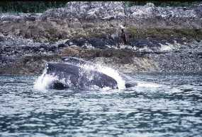 Humpback whale feeding close to shore